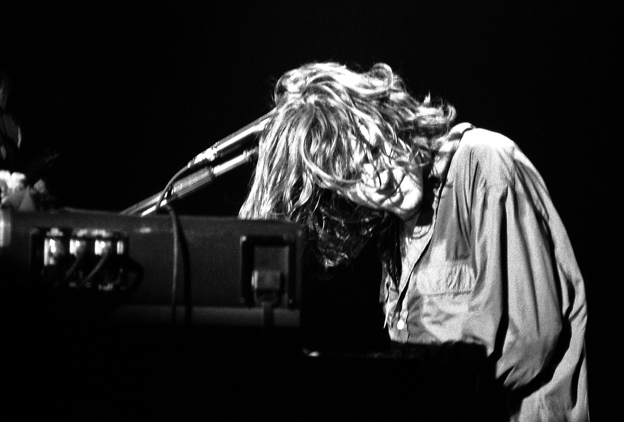 Hothouse Flowers Liam Ó Maonlaí - vocals, keyboards, guitar